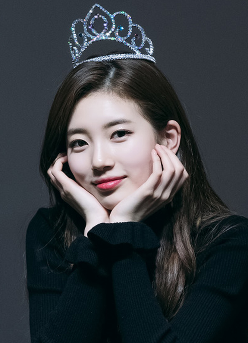 Suzy Bae at fansigning on February 3, 2018.